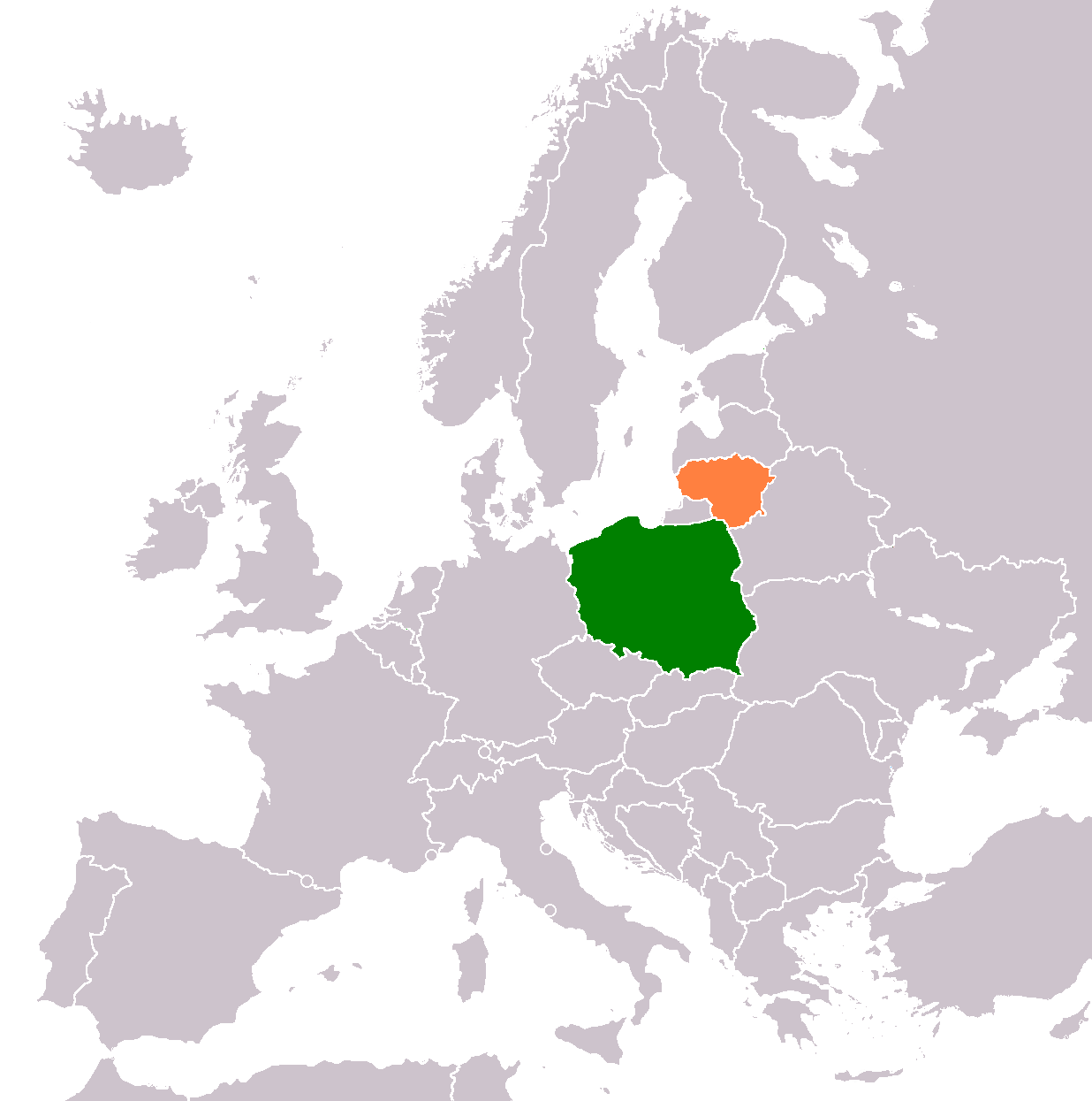 Map of the world indicating Poland and Lithuania. For use in Polish-Lithuanian relations and similar articles.